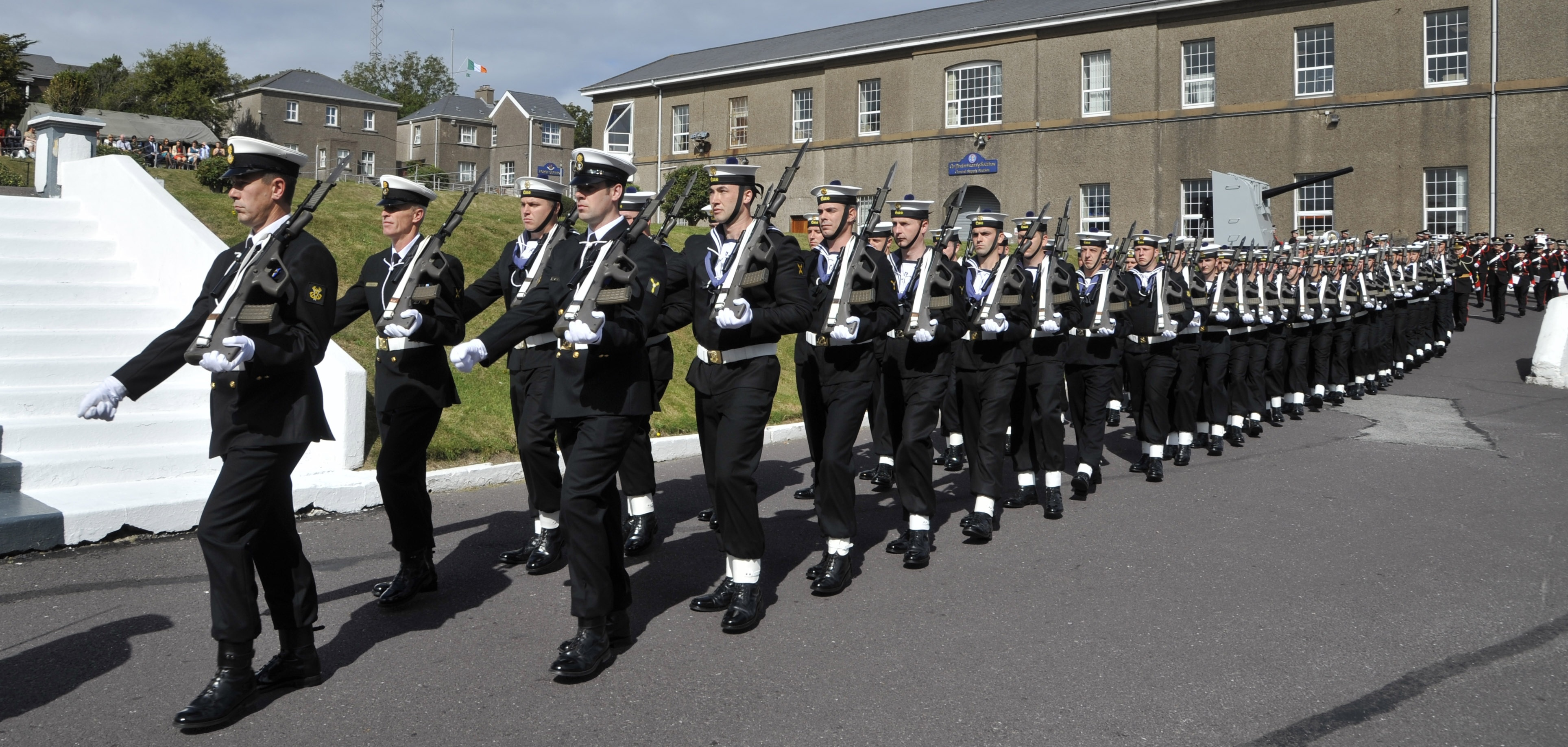 Irish Navy recruits passing out parade on September 7, 2013.